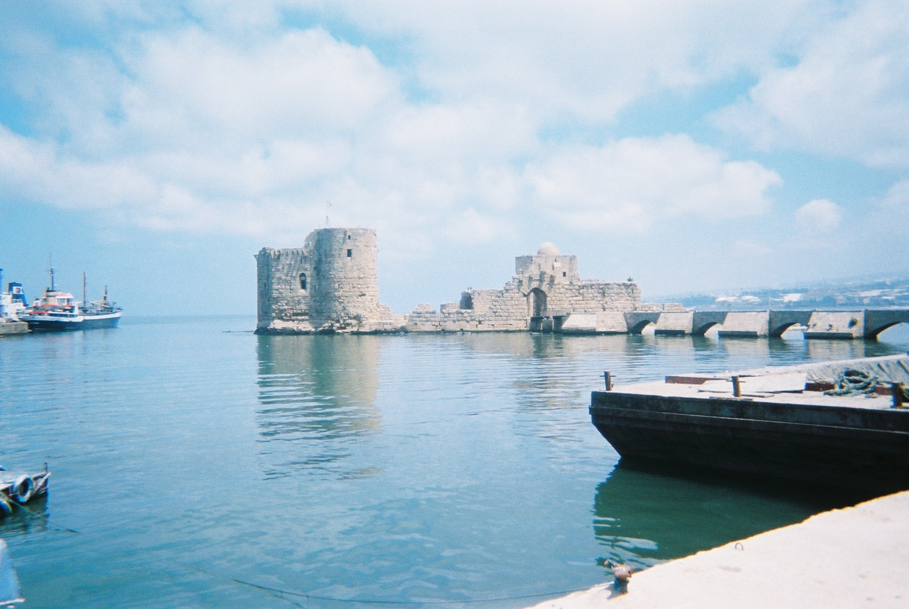 Saida Caste, Lebanon. My own work. Taken Aug. 2007